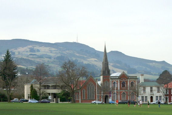 View of Mt Cargill from north Dunedin, New Zealand. Former Dundas Street Methodist Church and Sunday School Hall in the foreground.